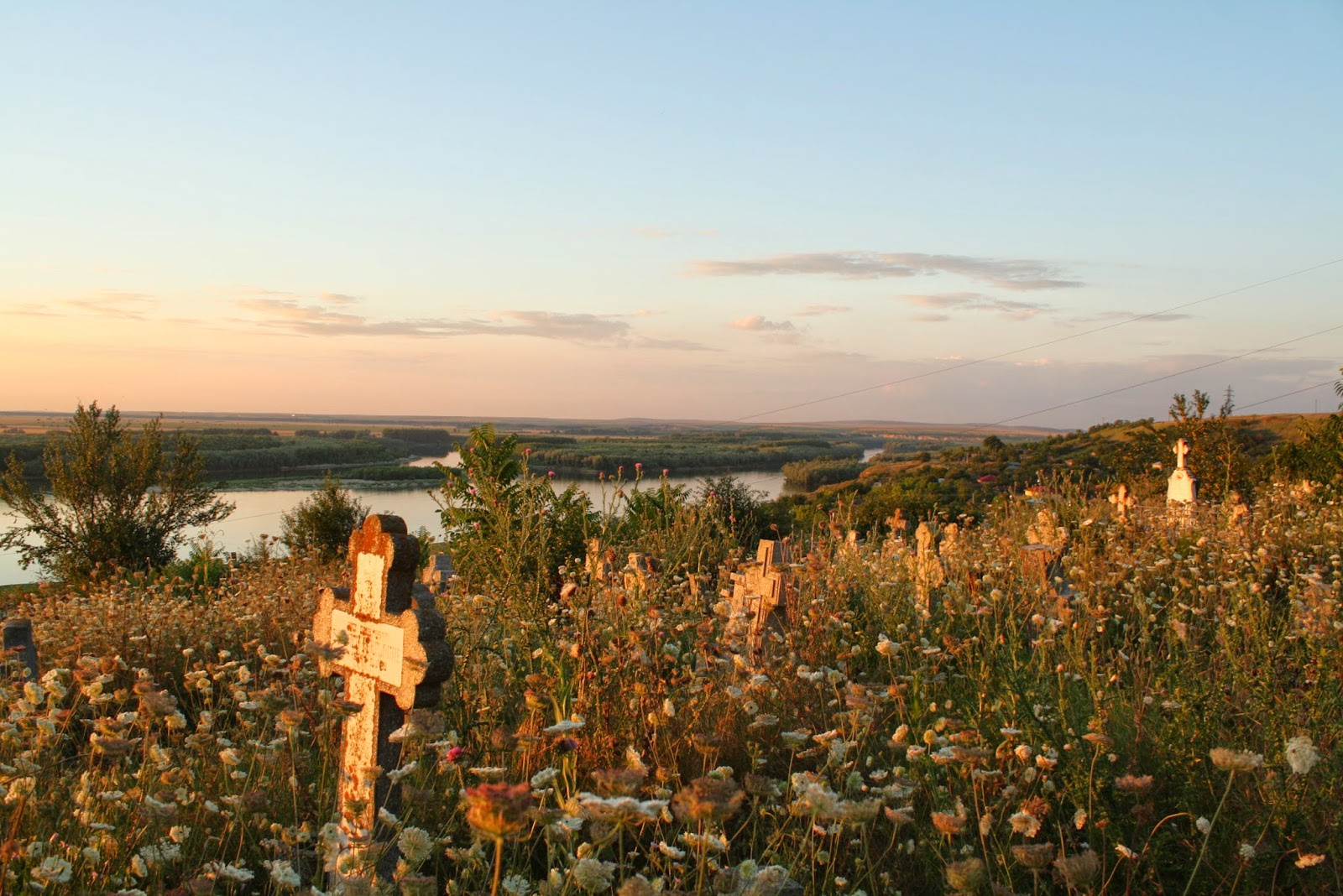 Overgrown cemetery overlooking the Danube, Near Cernavodă, Romania.